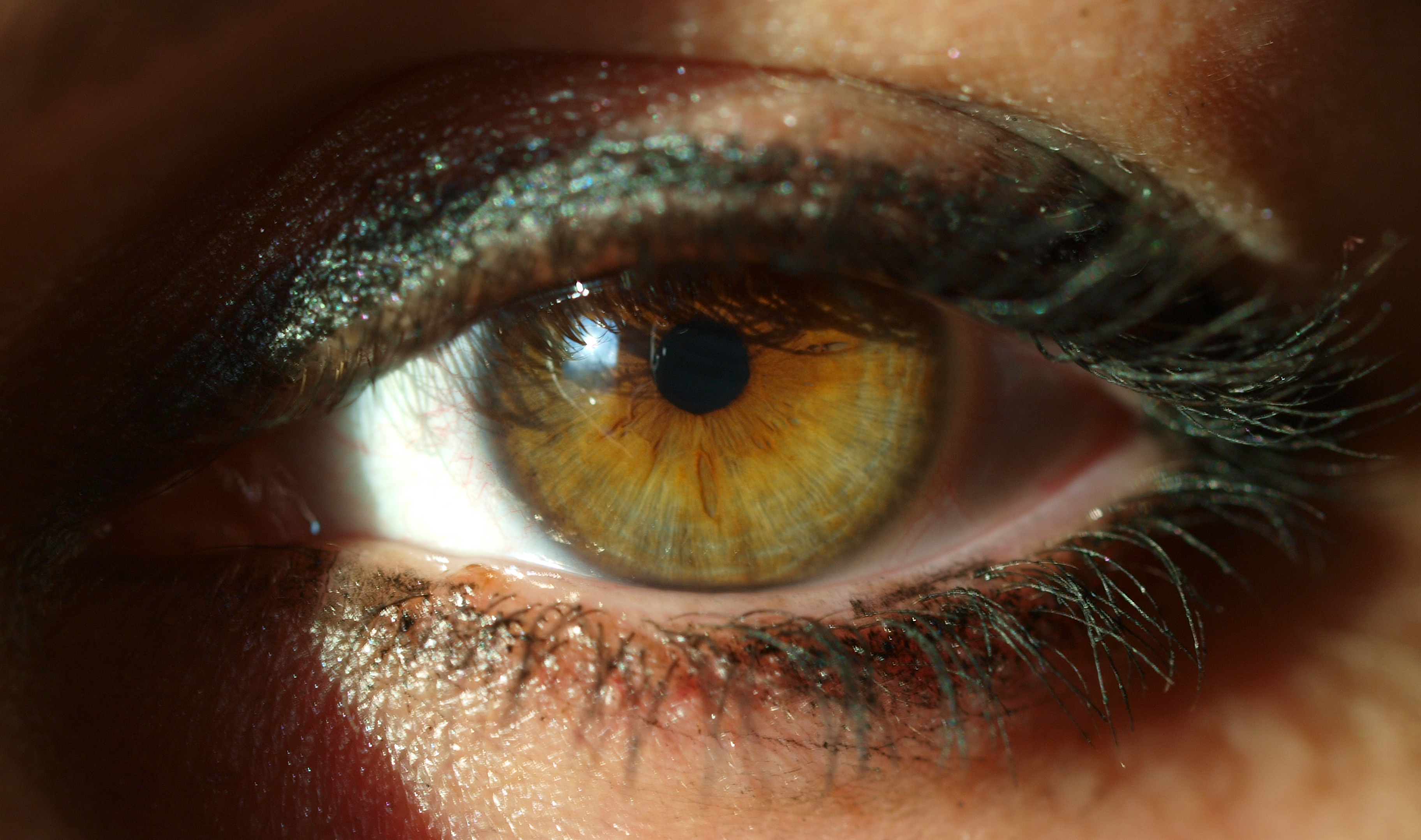 A woman’s eye.